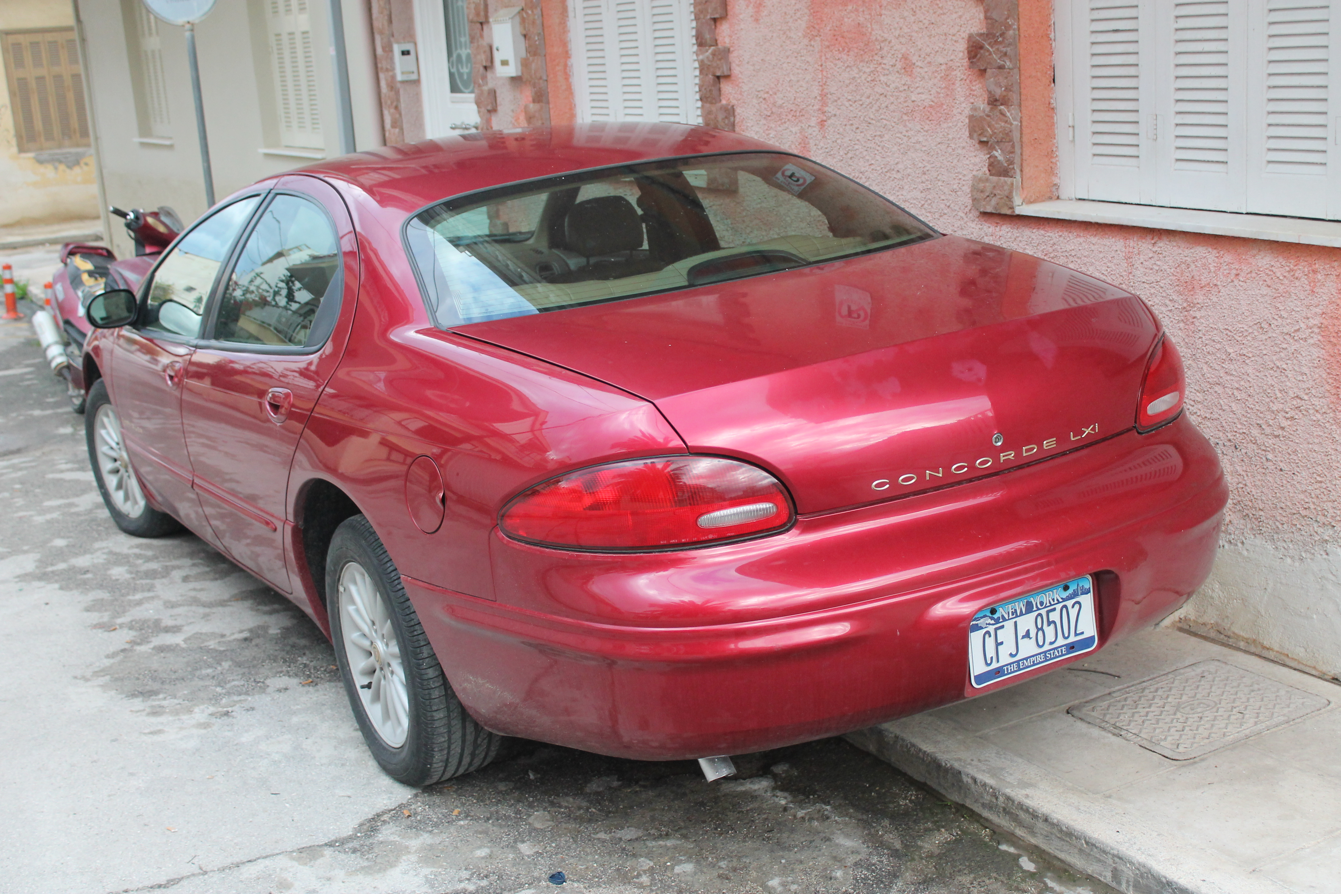 Good looking cars these, and this one is seen about four thousand miles from where it was registered! A 1998-2004 model. From the paper in the front window, I'm guessing this one was last licenced in New York in February 2011. First US car I've photographed in Greece. LXi is a quite upmarket spec. Not sure if this one has a 2.7, 3.2 or 3.5 litre V6. Much better than its successor, the ugly, dull Chrysler 300.